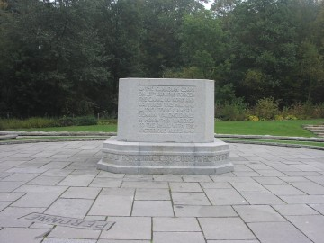 Granite Memorial Stone, Burlon Wood Canadian Memorial, Burlon France. Taken by Bill Kempthorne October 2005.